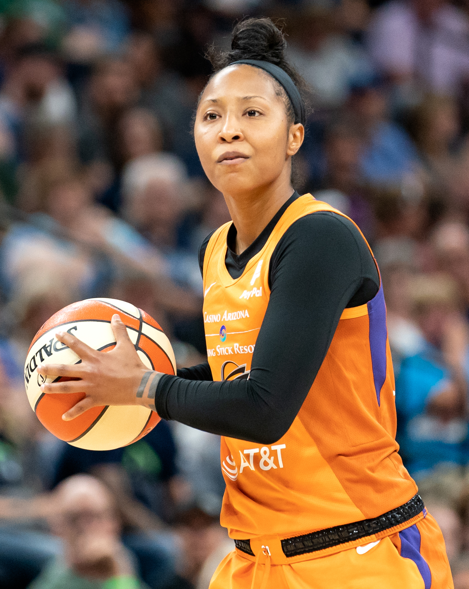 Phoenix Mercury player Briann January guarded by Odyssey Sims